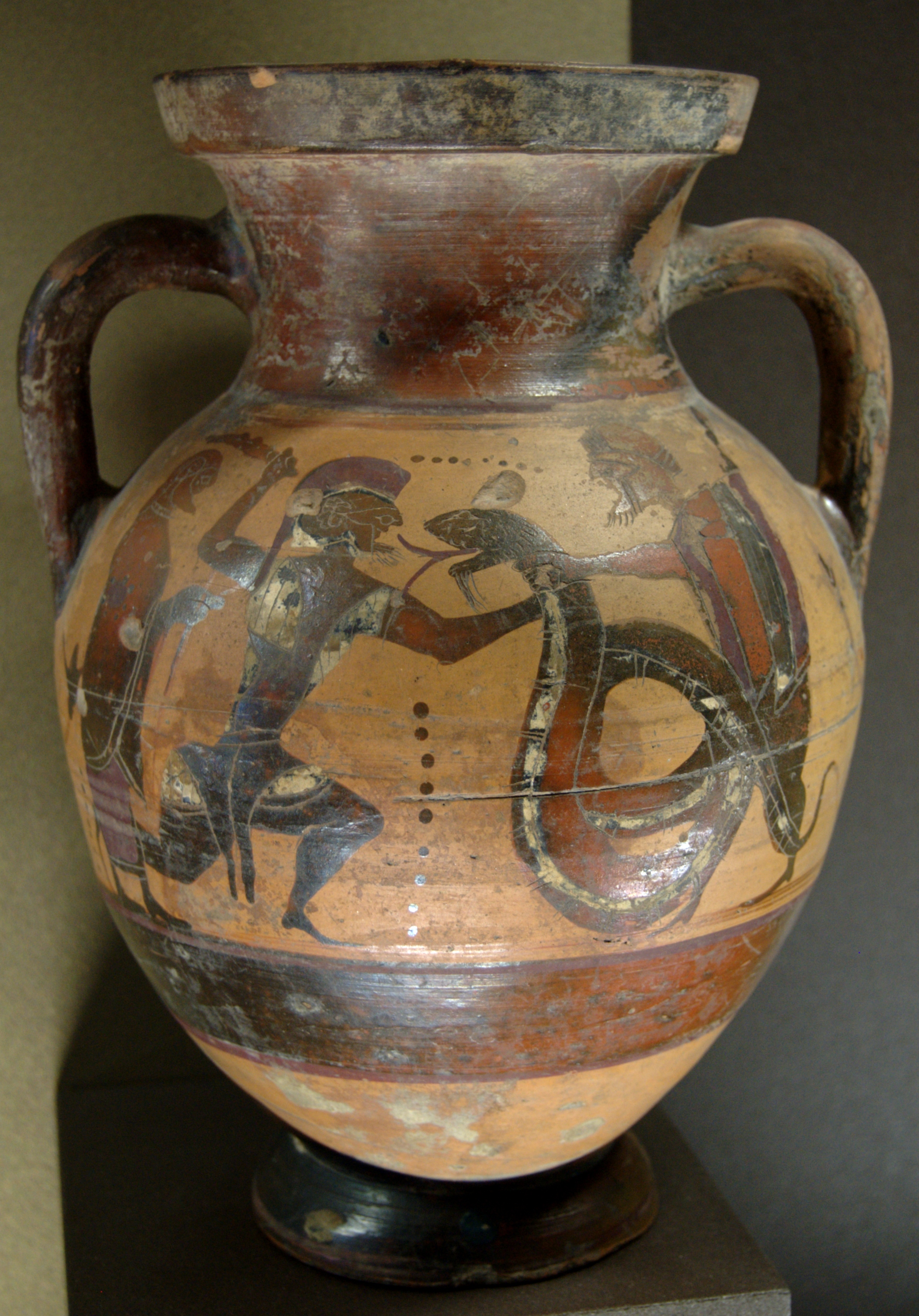 Cadmus fighting the dragon. Side A of a black-figured amphora from Euboea, ca. 560–550 BC.